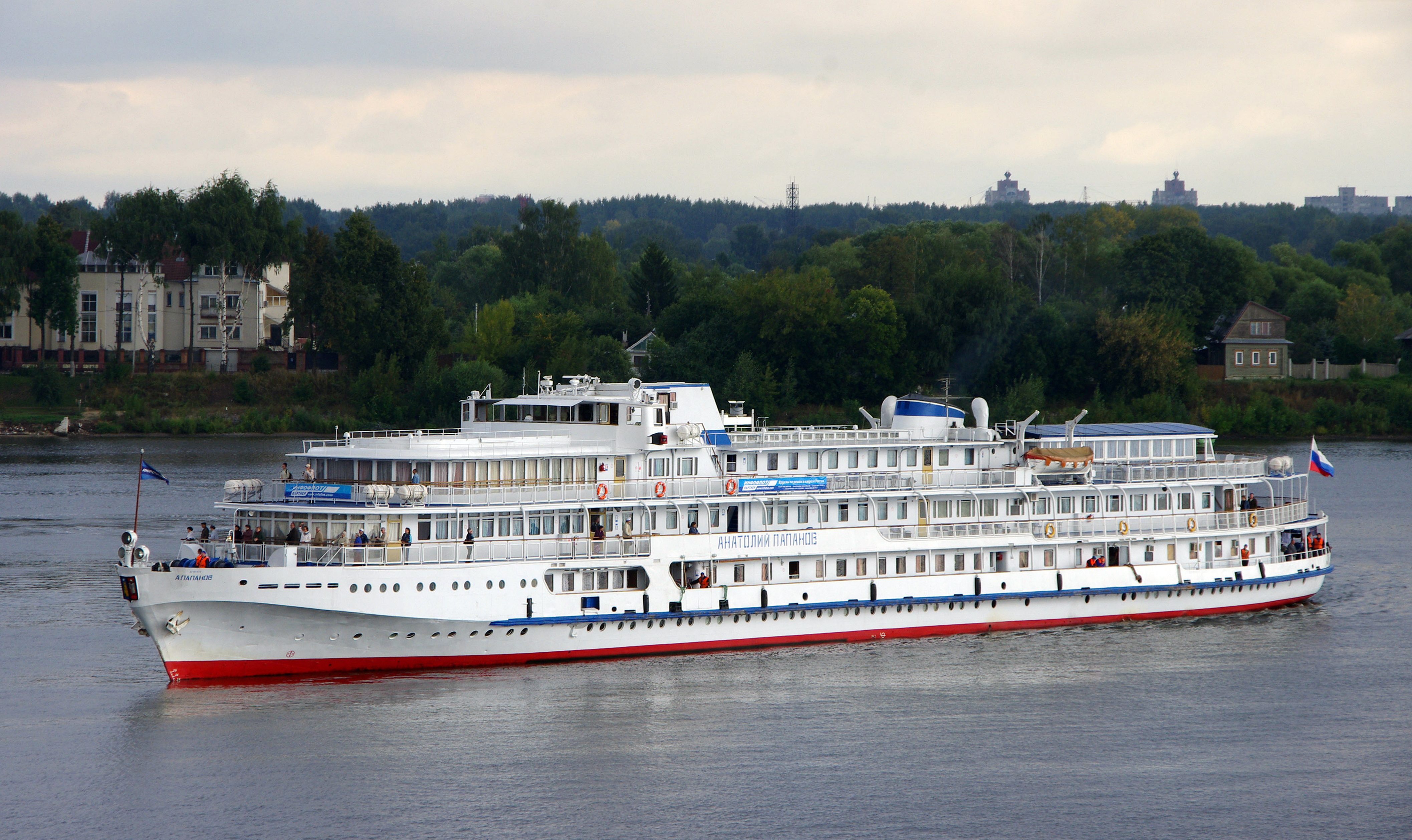 River cruise ship A. Pananov of Project 588 class, ex. K. E. Tsiolkovskiy. Volga, Yaroslavl.